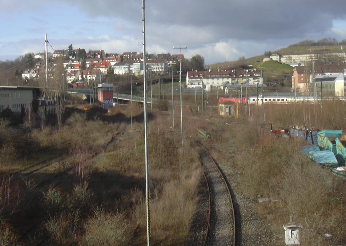 Laid off railway tracks in Stuttgart (Innerer Nordbahnhof), Germany. In the background an InterCity train passes the S-Bahn station Nordbahnhof